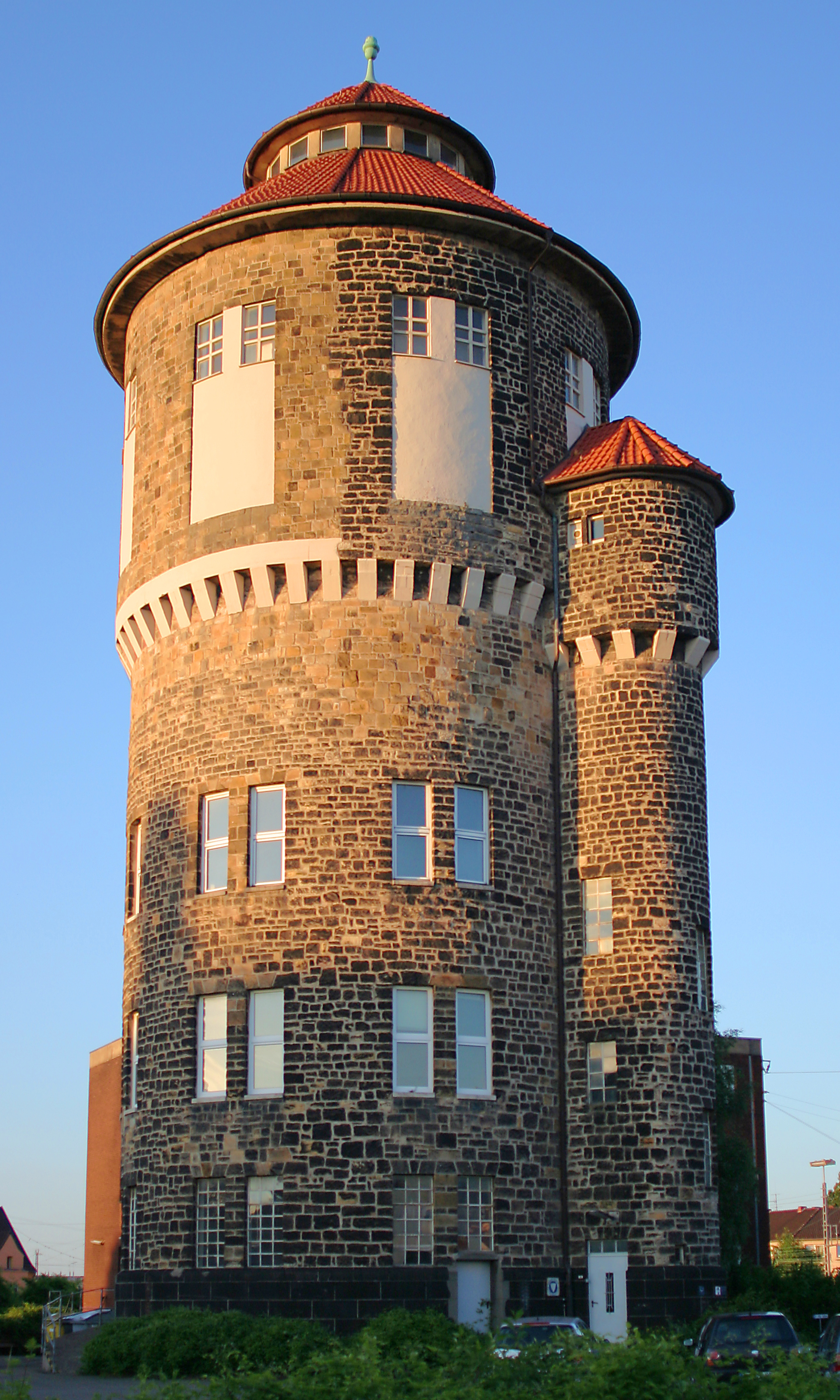 The water tower by the central station of Osnabrück, Germany